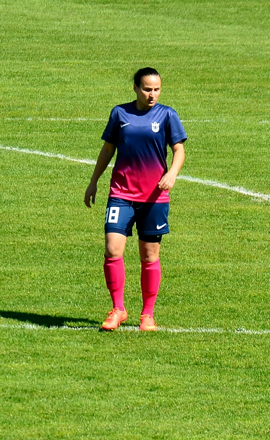 Arzu Karabulut playing for Konak Belediyespor in the 2013-14 season